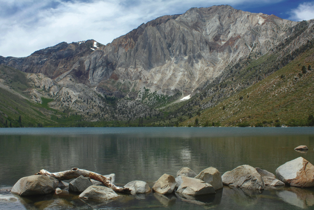 Laurel Mountain and Convict Lake, Inyo National Forest, Sierra Nevadas, California, USA